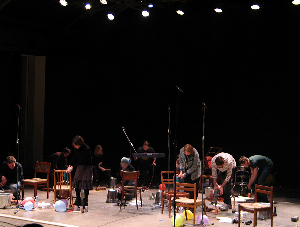 Young Moscow musicians performing "Rondo" by Georgy Dorokhov at "Future Music" festival in Moscow.